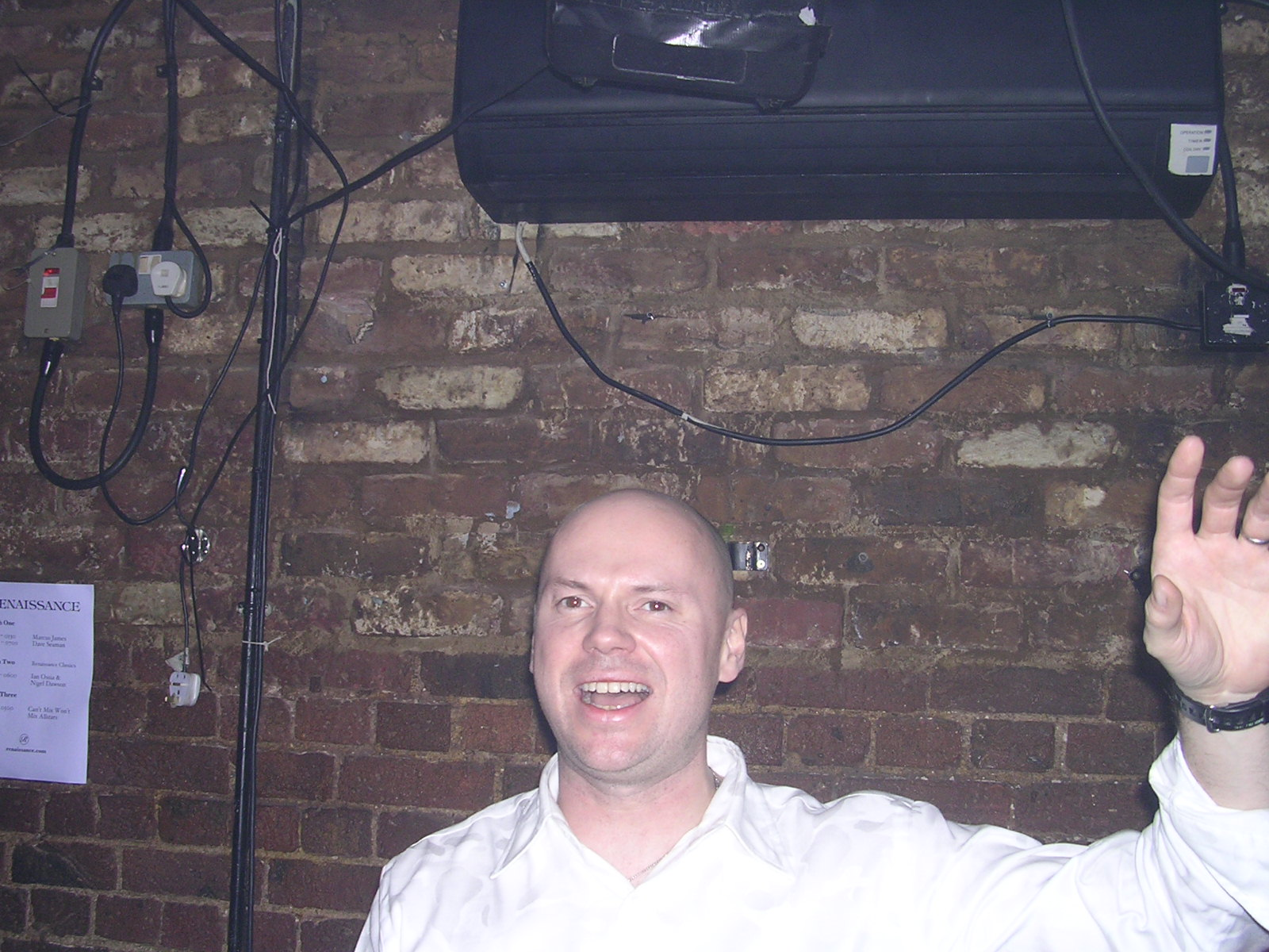 Actually this was about an hour before the end. Either way this is a video of the final song he played. :(